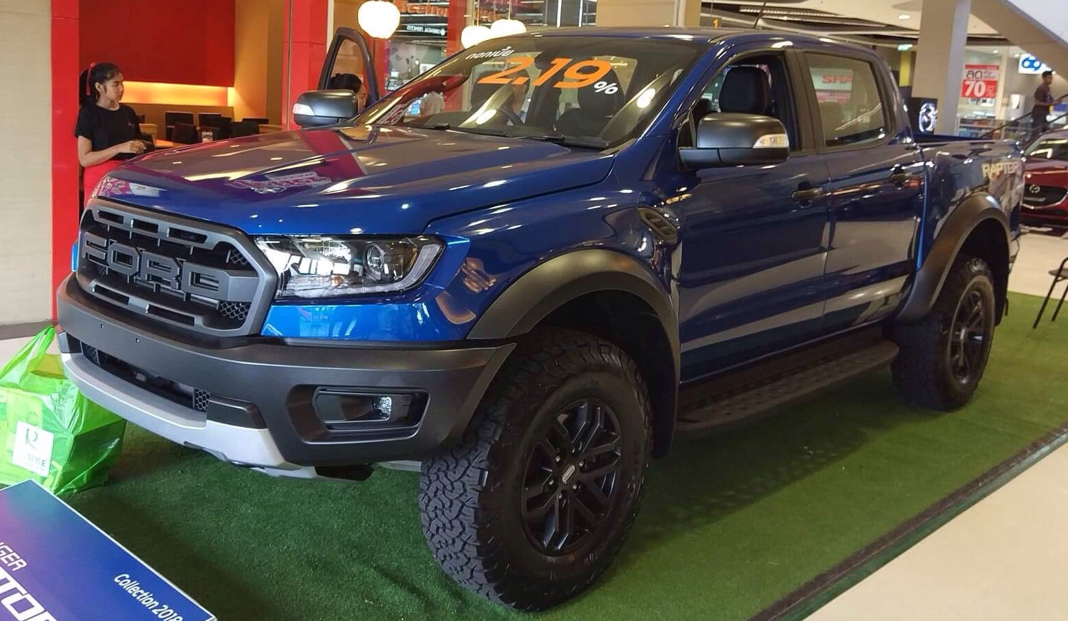 Ford Ranger Raptor display in Surin, Thailand.